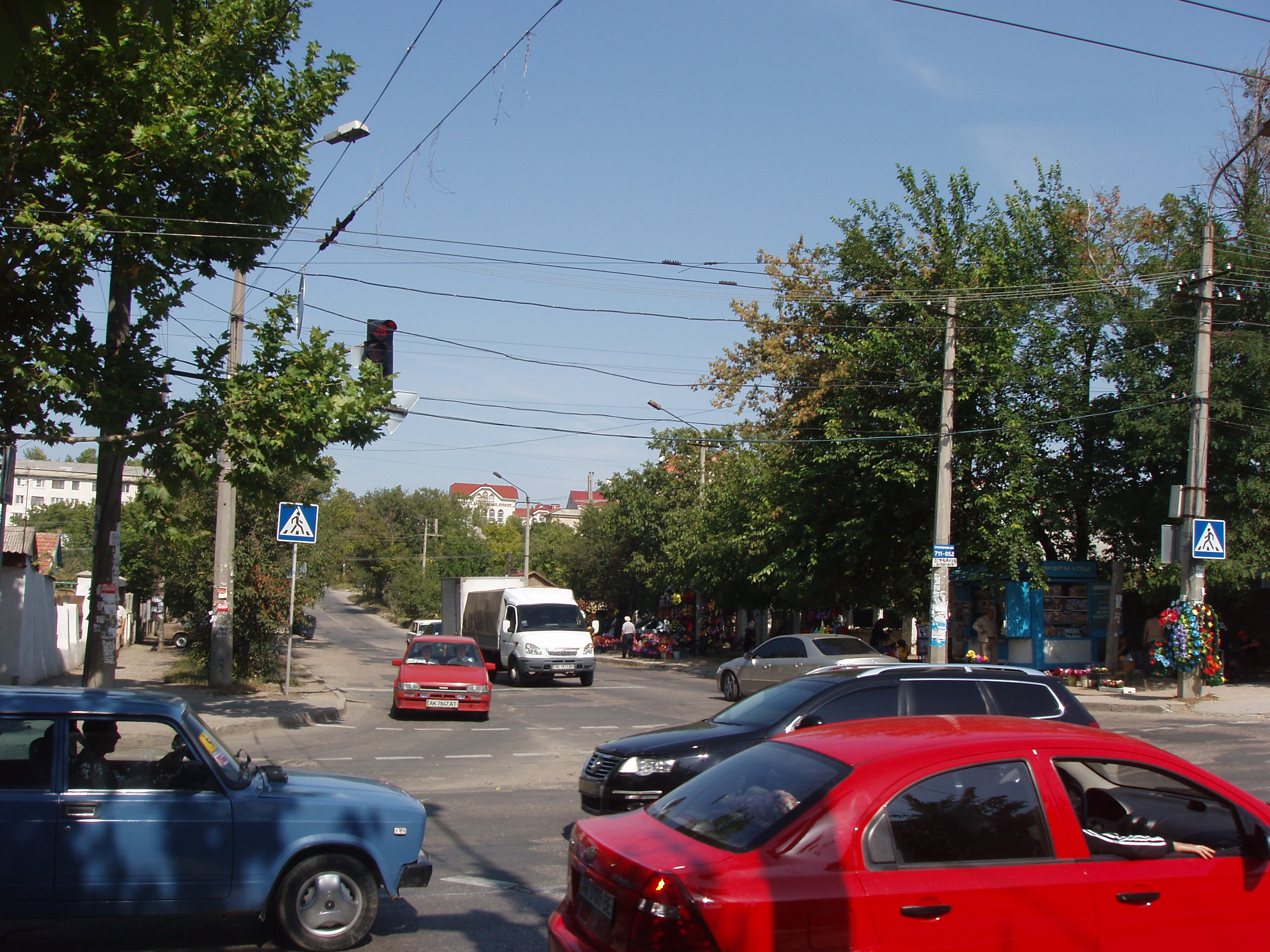 Simferopol_Abdal